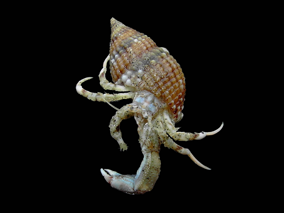 South-claw hermit crab from the Belgian coastal waters.